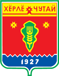 Krasnochetaysky rayon (Chuvashia), coat of arms